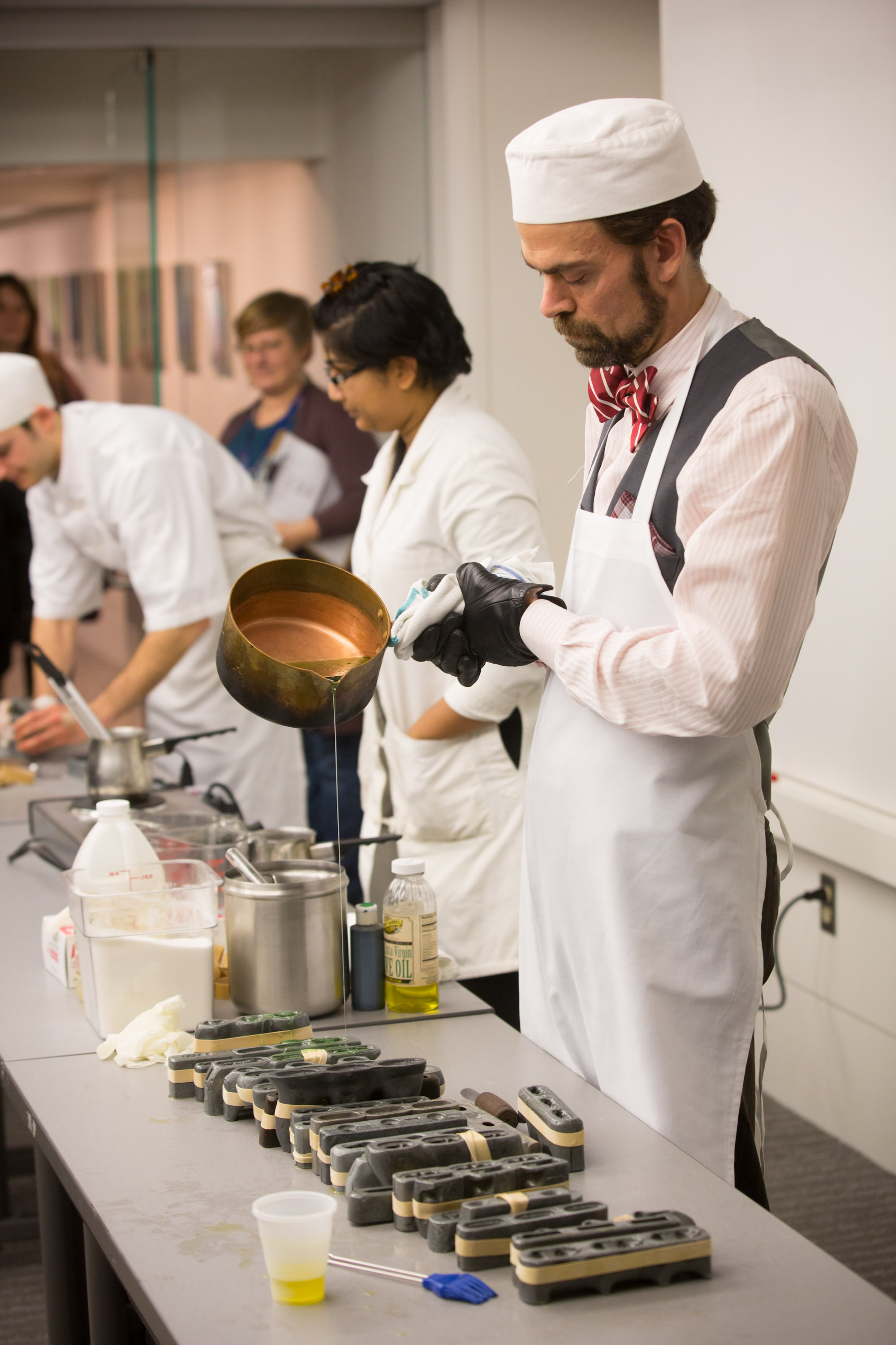 Ryan Berley pouring hot liquid candy into candy molds. Photograph from "Sugar and Spice", a clear toy candy-making demonstration, held on First Friday, 7 December 2012 at the Chemical Heritage Foundation, Philadelphia, PA, USA. Ryan Berley, co-owner of Philadelphia’s old-timey favorites Shane Confectionery and the Franklin Fountain, discussed the history and science of traditional clear toy candy making.